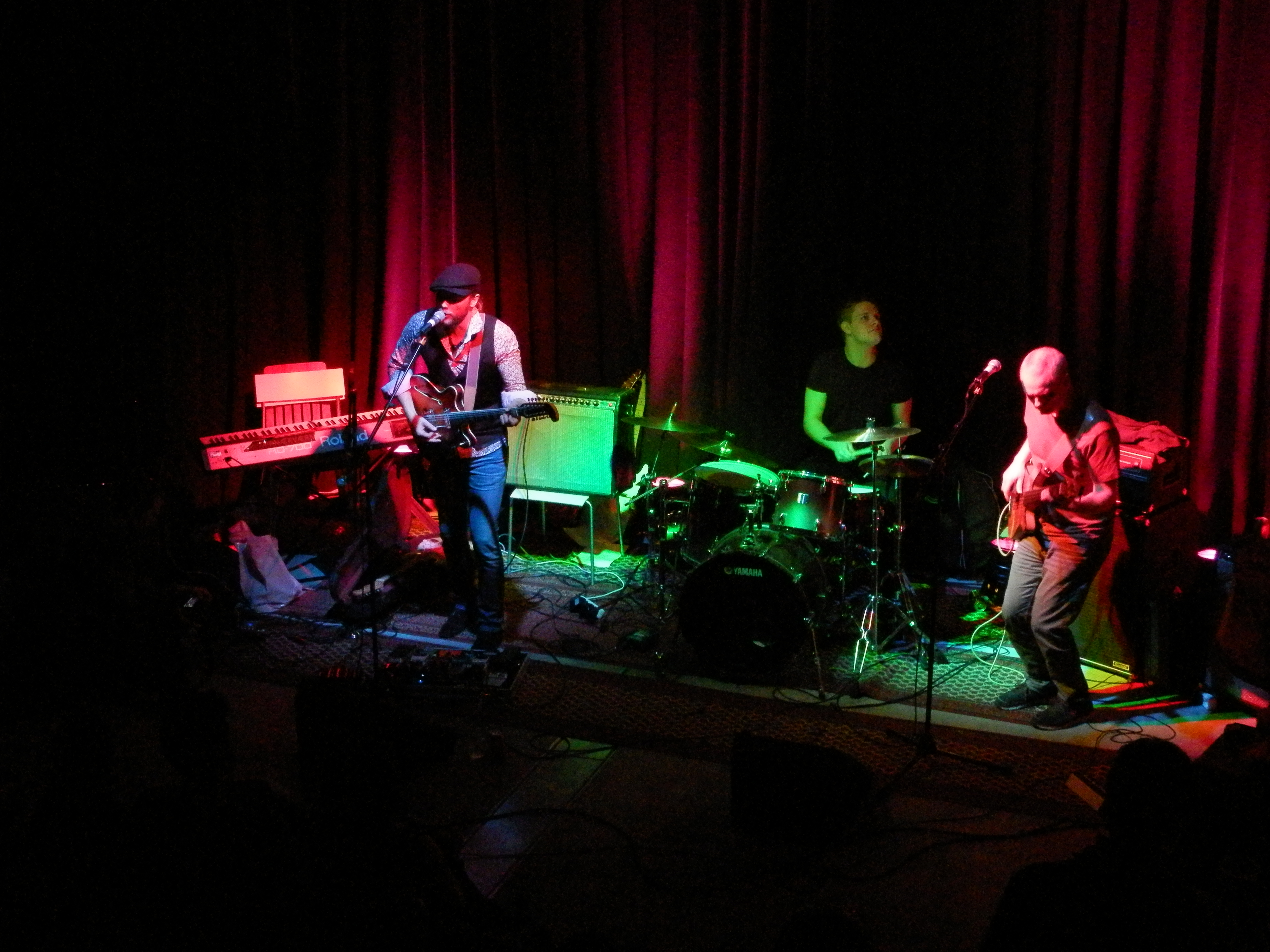 Debess Blues Station is a Faroese blues band. Here they are playing at the Perlan Blues 2014 in Tórshavn, Faroe Islands. The band members this evening were: Edvard Nyholm Debess, Uni Reinert Debess and Jósva Debes.